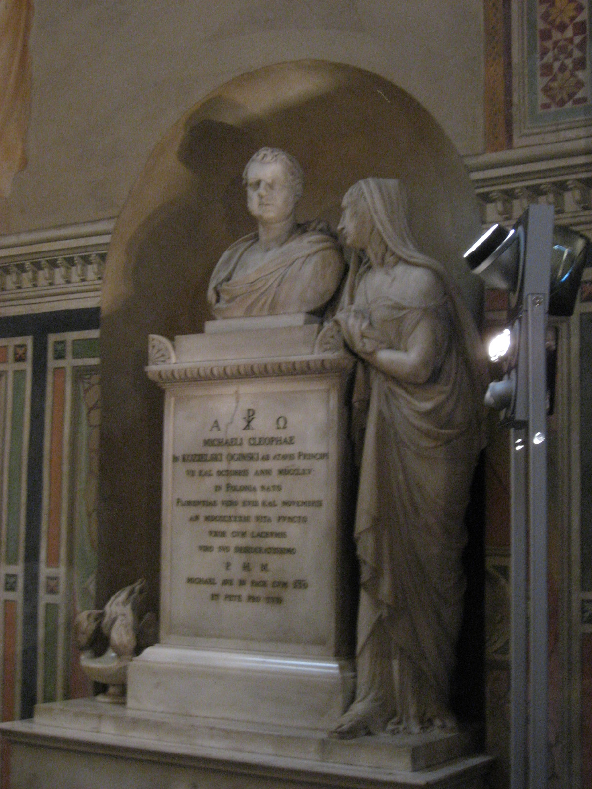 Cenotaph to a Polish noble in the Basilica of Santa Croce in Florence.